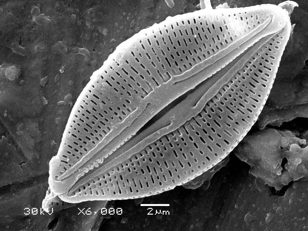 SEM foto. Silicified cell wall of a diatom Amphora sp., consisting of two valves or overlapping halves.Diatom samples were treated with cold acid method (Krammer & Lange-Bertalot, 1986)Amphora Ehrenberg is a very large and heterogeneous diatom genus represented in marine, continental and estuarine environments. Its frustule resembles ‘‘a third of an orange’’ (Hendey, 1964).